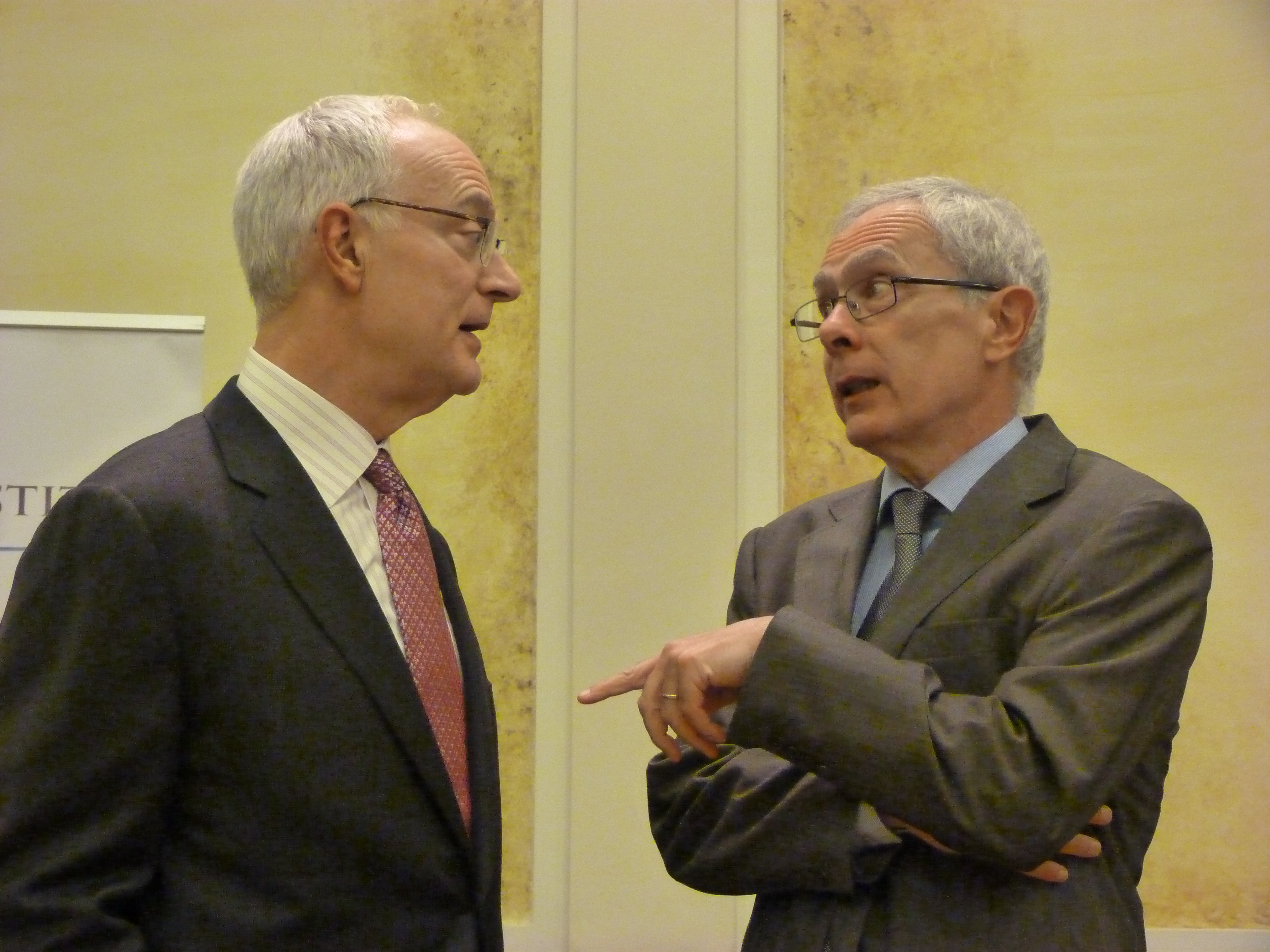 Live on the 12th of June, 2014. Budapest, Corvinus Egyetem. Danube Institute. Prof. Christopher DeMuth. American lawyer and fellow at the Hudson Institute. He was the president of the American Enterprise Institute (AEI), a conservative think tank, from 1986 to 2008 DeMuth is widely credited with reviving AEI's fortunes after its near-bankruptcy in 1986 and leading the institute to new levels of influence and growth. Before joining AEI, DeMuth worked on regulatory issues in the Ronald Reagan administration. When Reagan took office in 1981, DeMuth joined the administration as administrator for information and regulatory affairs at the Office of Management and Budget and executive director of the Presidential Task Force on Regulatory Relief. He was known as Reagan's "deregulation czar." Since retiring as president of AEI, DeMuth has held the D. C. Searle Chair there, researching government regulation, culture, and American politics. Stumpf István and Bod Péter Ákos participated at the lecture. Tags: Danube Institute 2014 Budapest Corvinus University American Enterprise Institute Ronald Reagan Sources: DI flyer en.wikipedia ©© Derzsi Elekes Andor, Budapest, 2014, You are authorised to use these photos and vids under Creative Commons – even for commercial, for profit purposes. Photos must be attributed to Derzsi Elekes Andor. All of the photos and vids in the Metapolisz DVD line are under Creative Commons and can be used even for commercial – for profit – purposes. Recommended Citation Derzsi Elekes Andor: Metapolisz DVD line